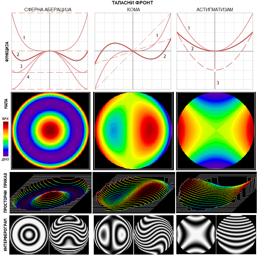 ПРЕДСТАВЉАЊЕ ТАЛАСНОГ ФРОНТА: ПРИМЕРИ